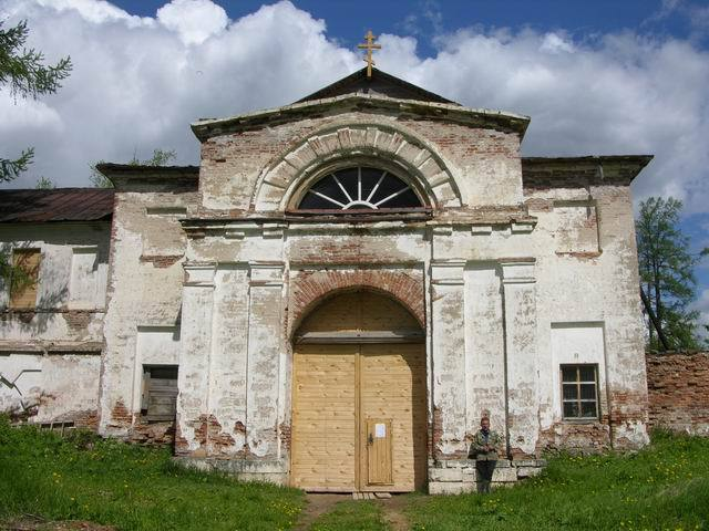 Kargopol (Russia), Alexandro-Oshevensky Monastery, Nikolskaya Church.